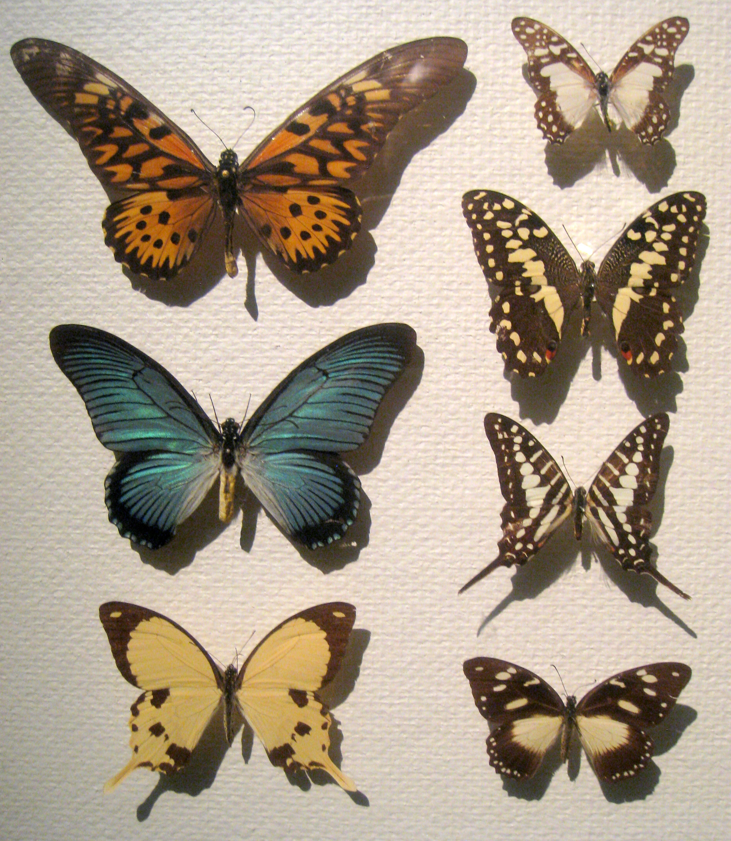 A few species of Papilionidae, including birdwings & swallowtails, Trimmed and edited picture for particular purpose.